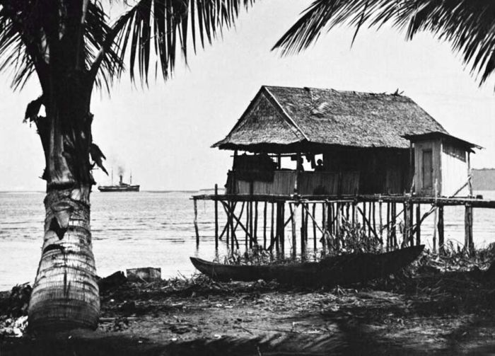 Pile house at the beach of Weda